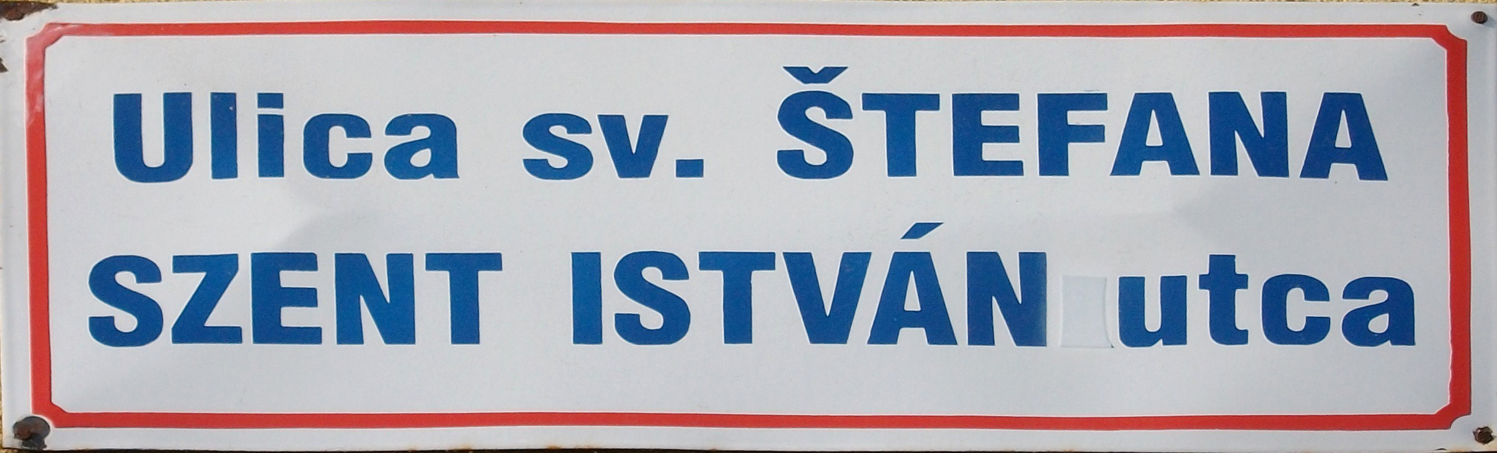 Bilingual (Slovak and Hungarian) street sing (Saint Stephen street), Štúrovo/Párkány, Slovakia